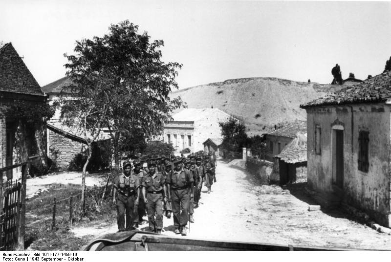 Title: Korfu, deutsche Truppen in Ortschaft Extra information: Korfu.- Deutsche Soldaten beim Marsch durch eine Ortschaft; PK 690 Factual corrections and alternative descriptions are encouraged separately from the original description. Additionally errors can be reported at this page to inform the Bundesarchiv. Original historic description